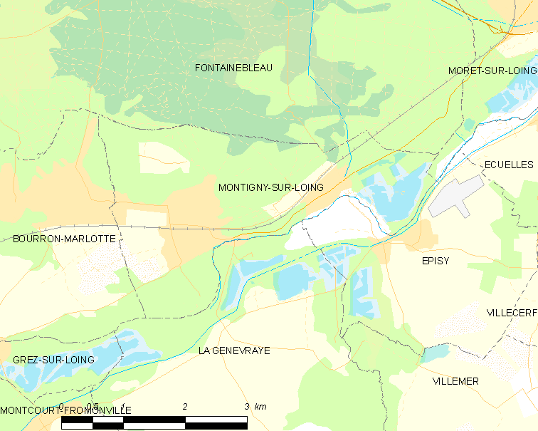 Map of French municipality Montigny-sur-Loing